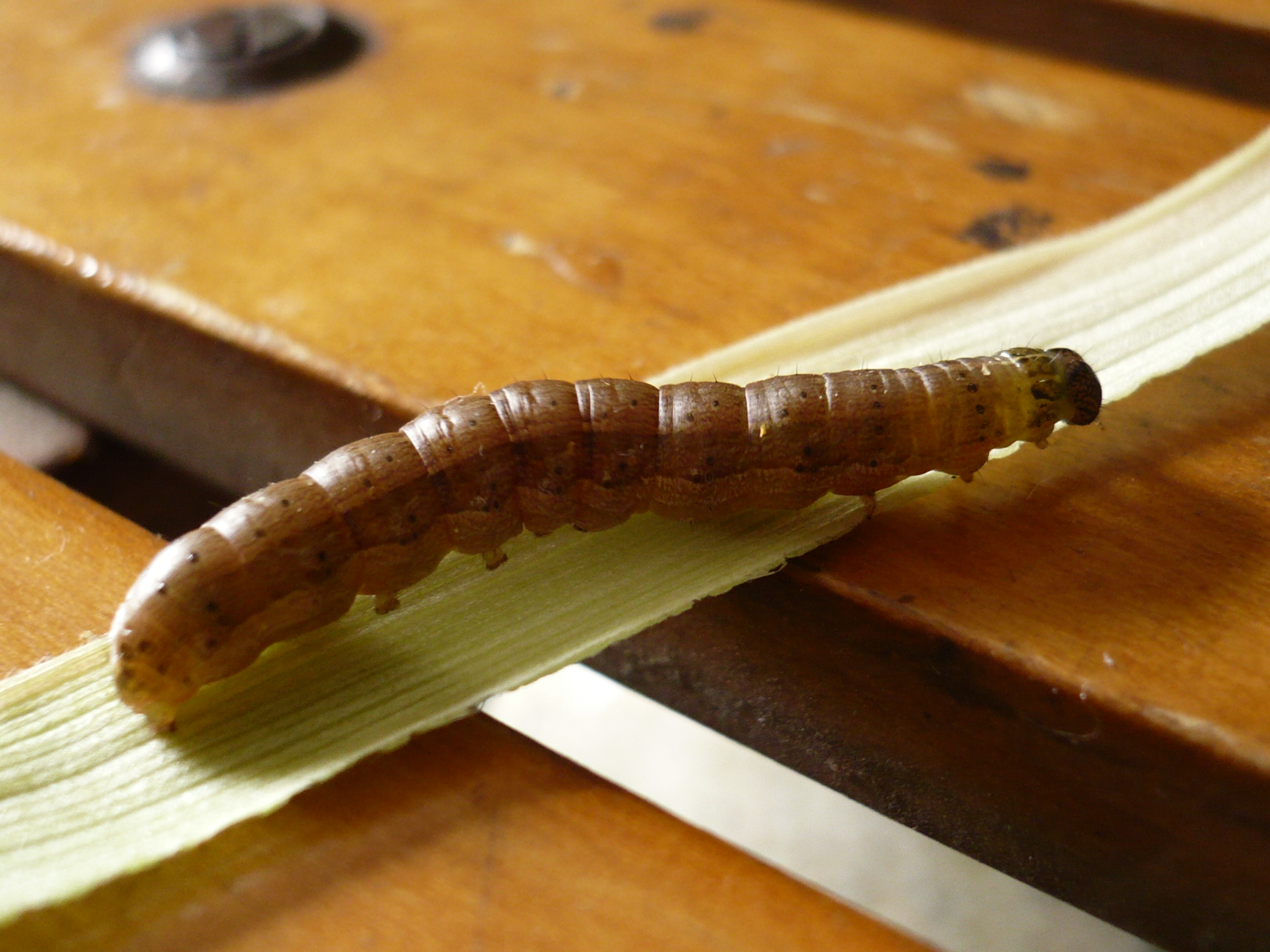 Corn worm